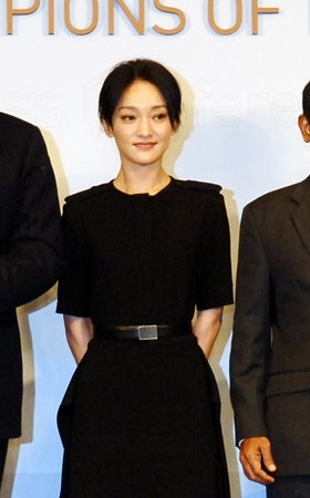 Zhou Xun in Seoul in 2010.